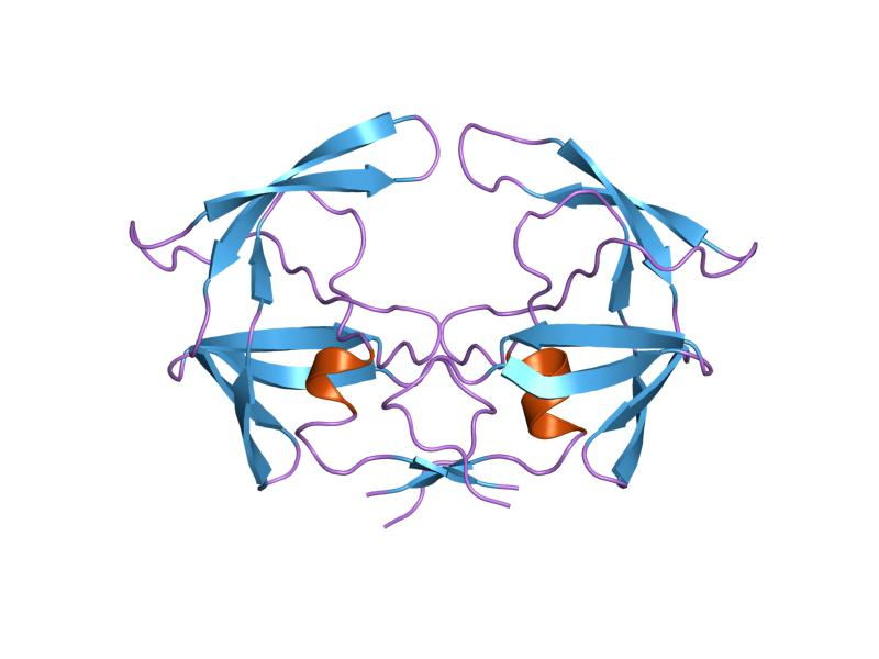 Cartoon representation of the molecular structure of protein registered with 1hsi code.